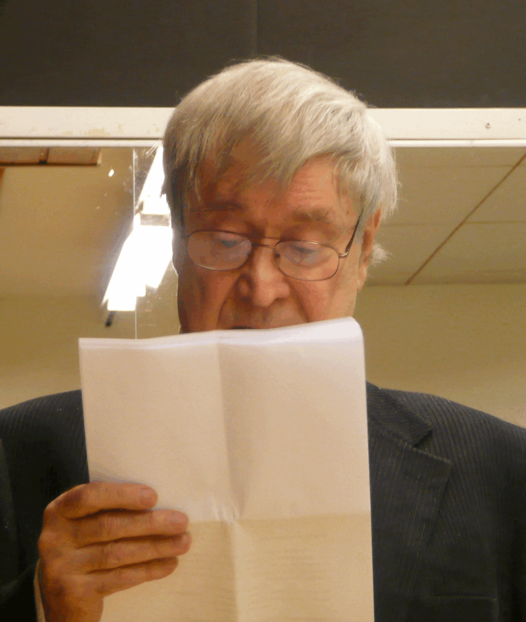 Finnish author Hannu Salama reading his poems at Sumelius Club in Tampere, Finland November 5, 2008.